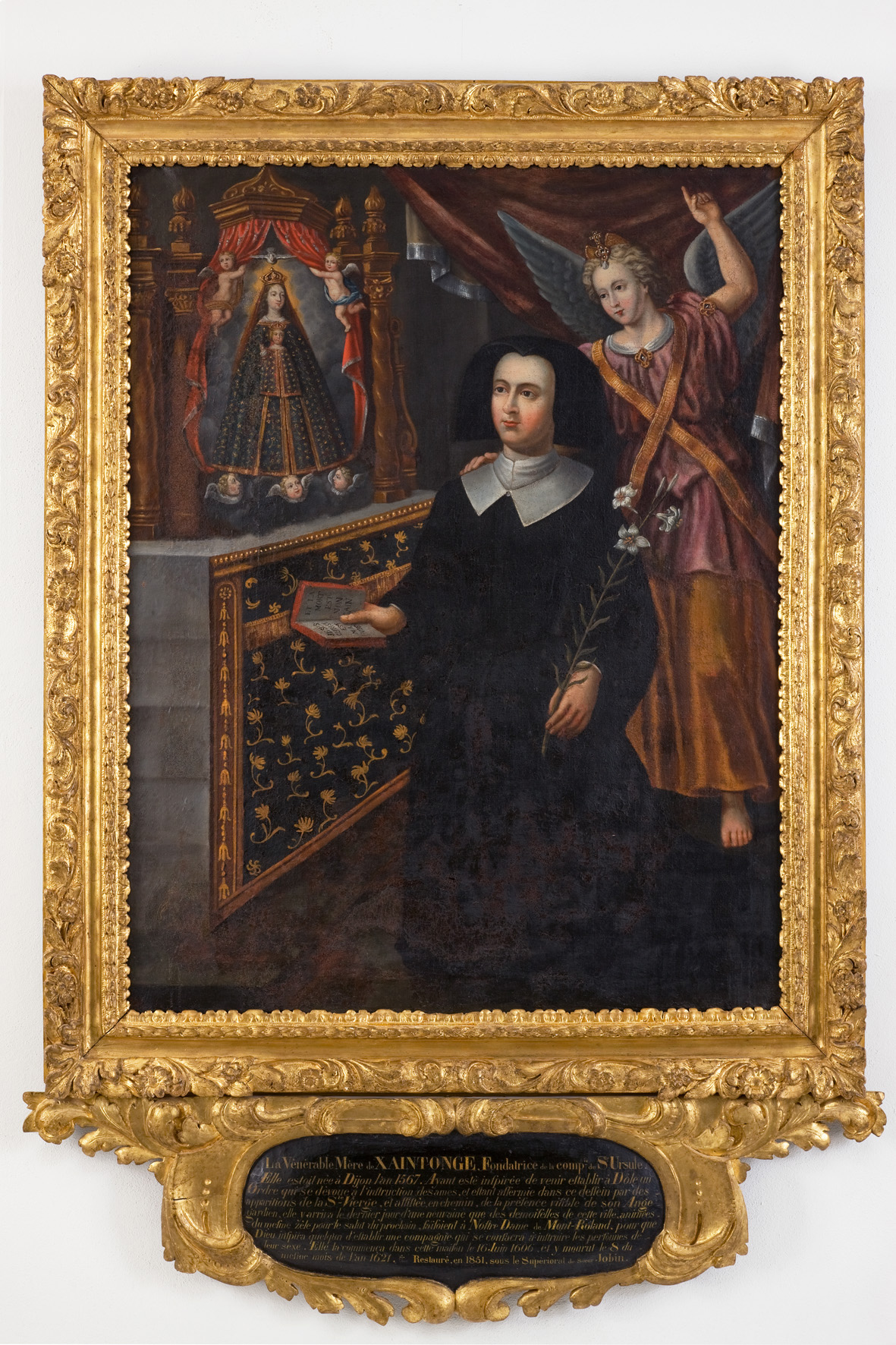 A painting of about 1687 showing Anne de Xainctonge, foundress of the Society of the Sisters of Saint Ursule of Anne de Xainctonge